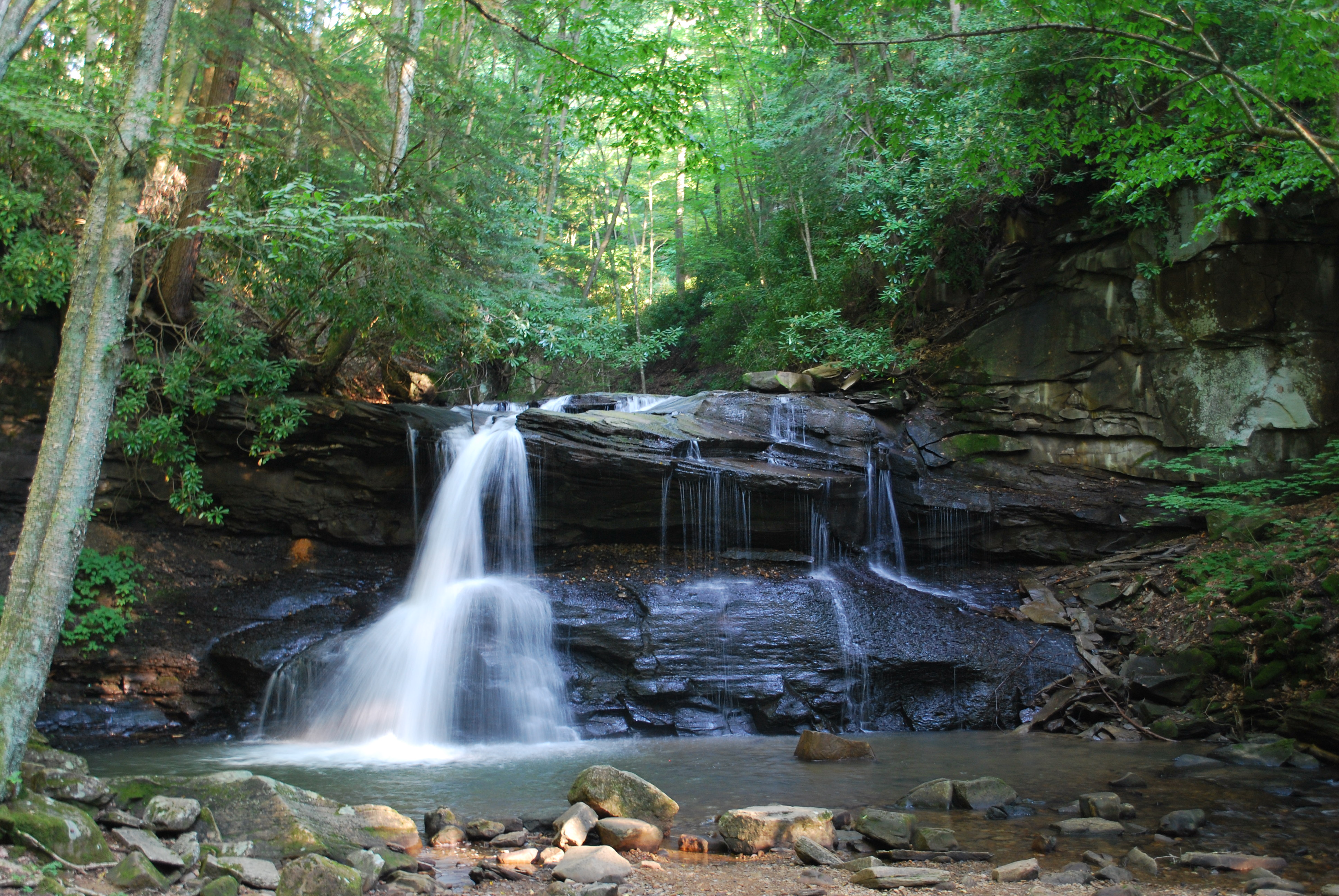 Upper Falls — in Holly River State Park, Allegheny Mountains, West Virginia.